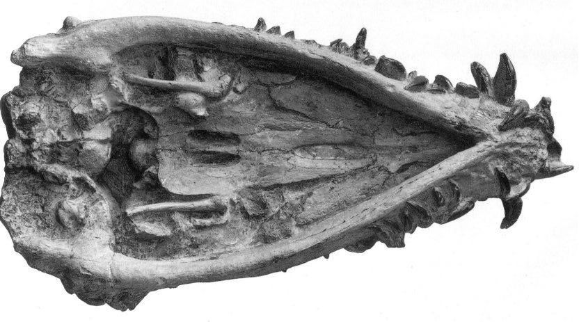 Meyerasaurus victor (jr syonym Rhomaleosaurus victor skull.